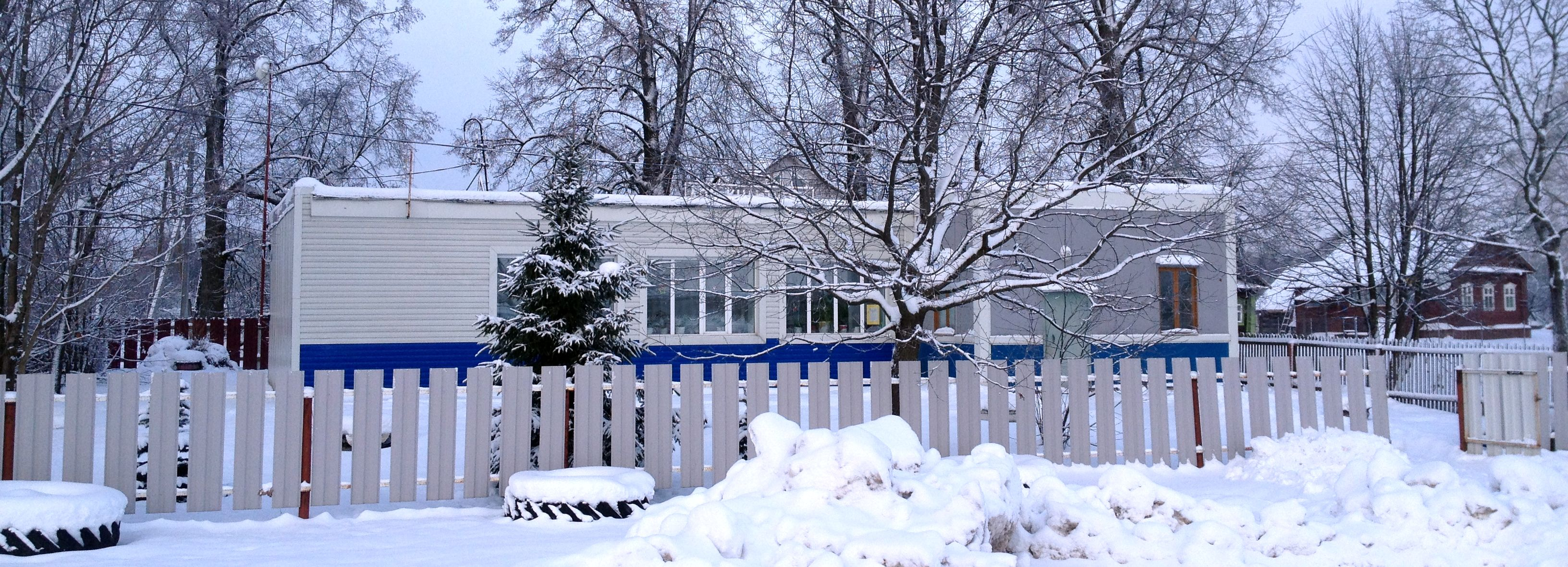 Palace of Culture in Nushpoly (Taldomsky district, Moscow oblast).